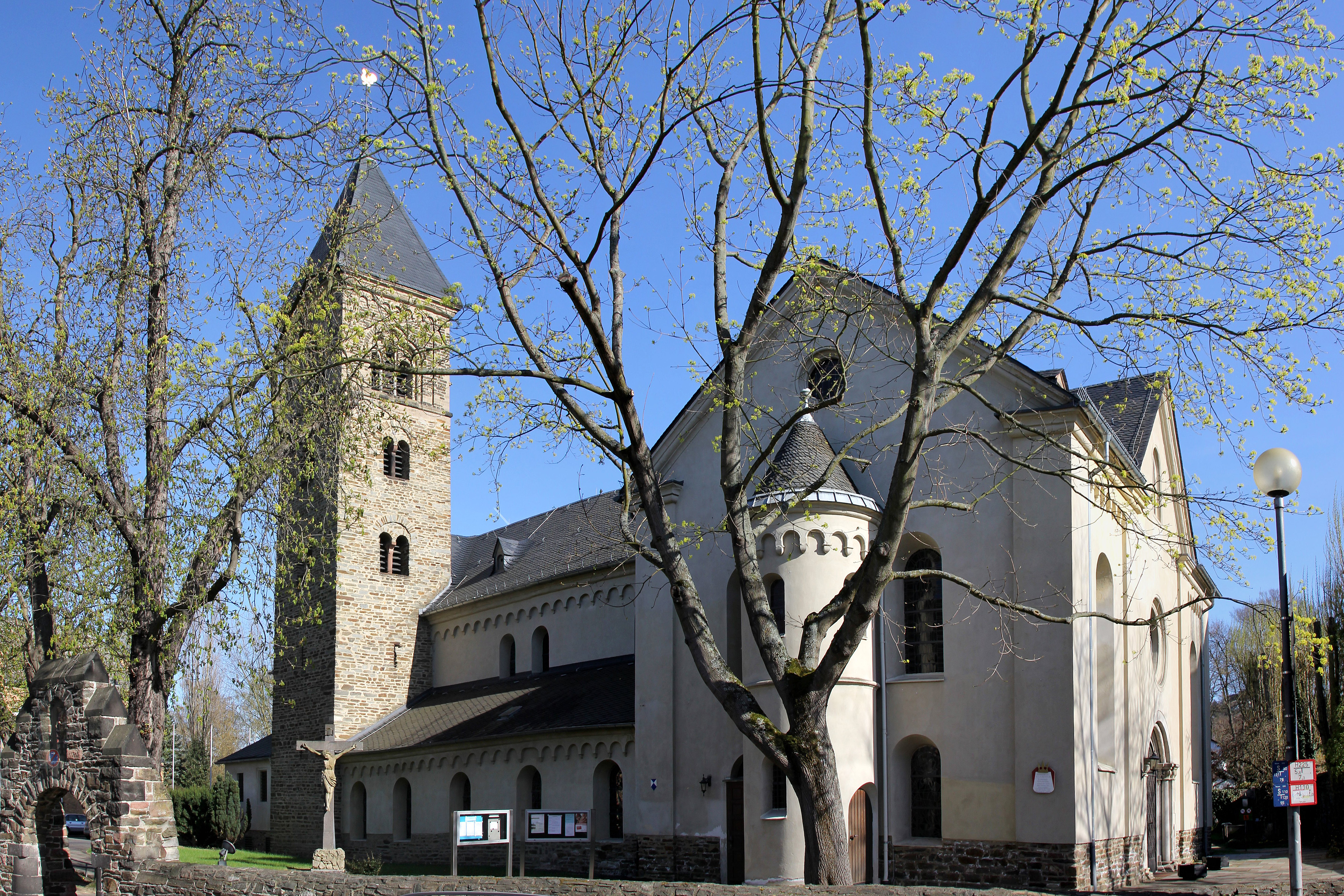 St. Laurentius church in Koblenz